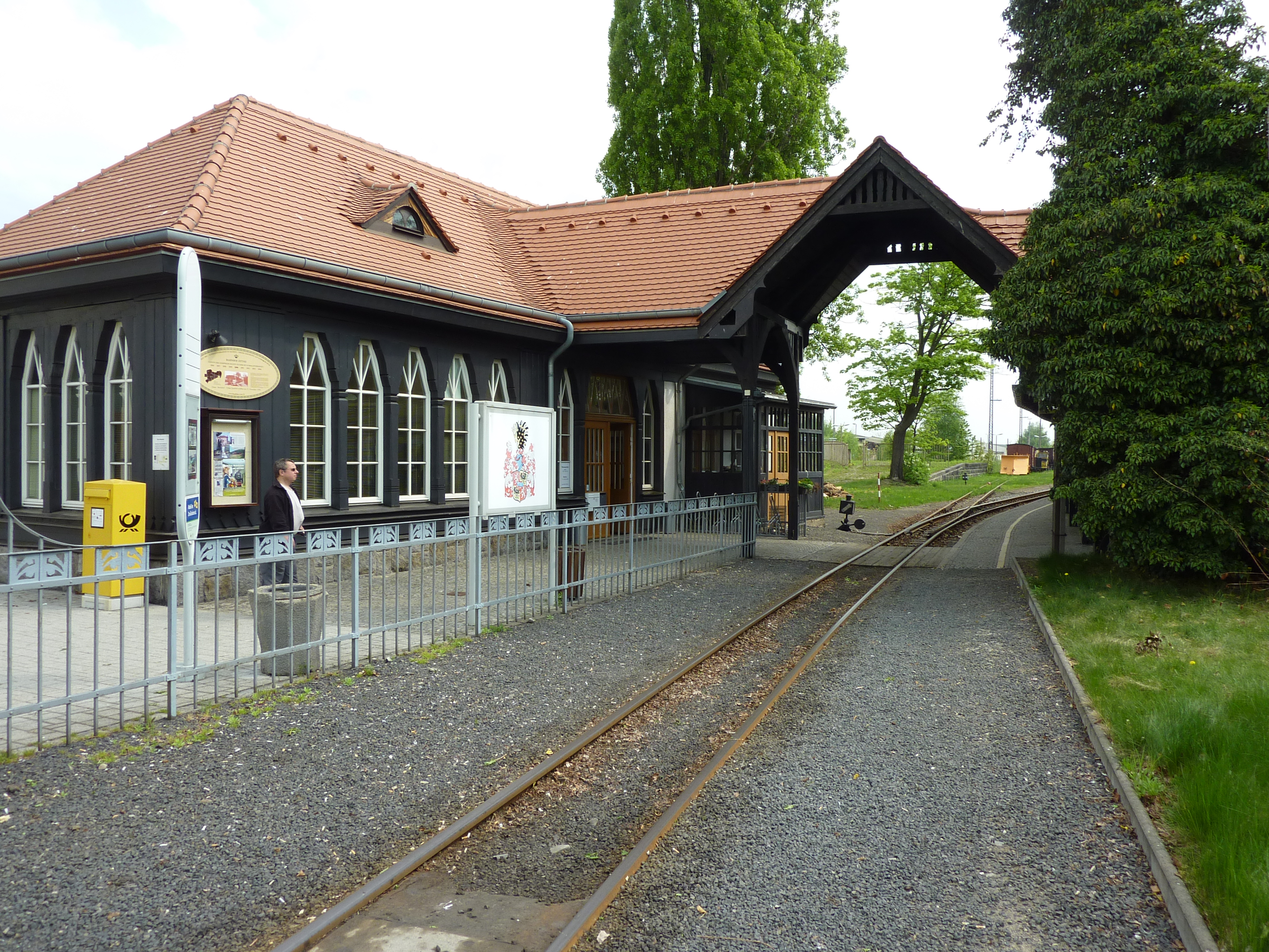 Zittau narrow-gauge station in Germany, 2011